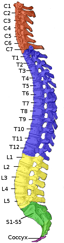 same as Image:Gray 111 - Vertebral column.png but coloured